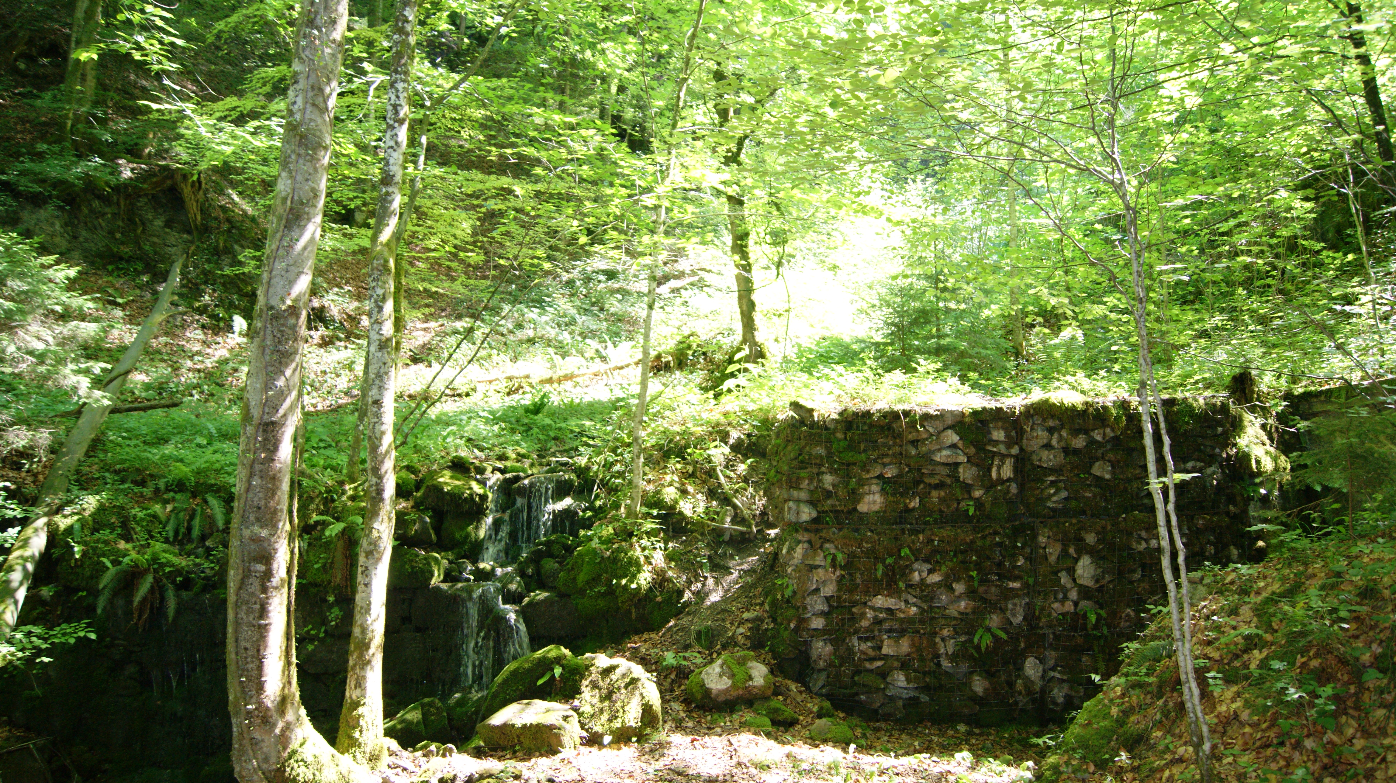 Plot Boden in Dornbirn (Vorarlberg, Austria). Former retention basin of the high-pressure pipeline of the former power plant in today's nightclub Conrad Sohm (former textile company André Winder).